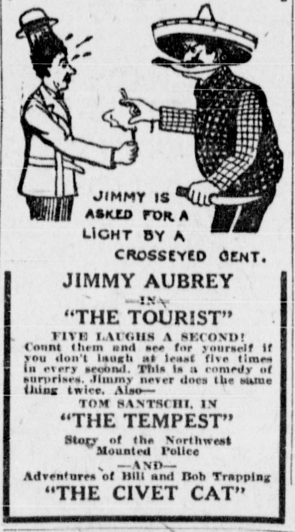 The Tourist is a 1921 American silent comedy film featuring Oliver Hardy.